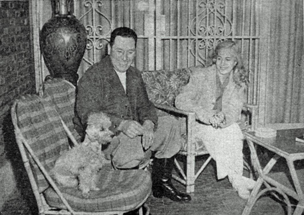 Perón and Evita